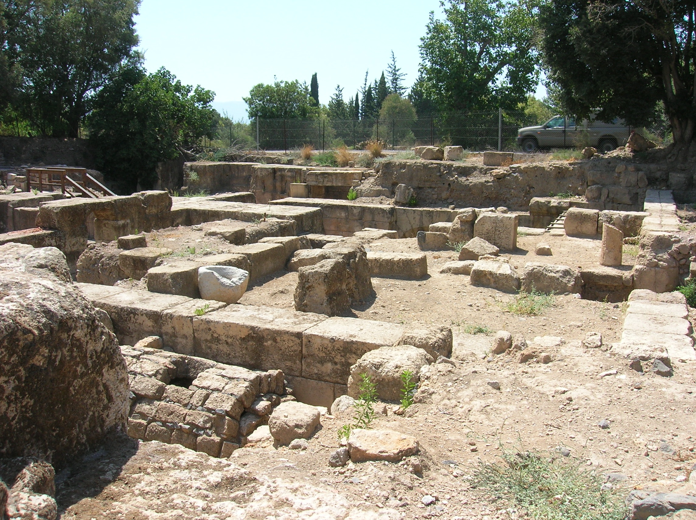 Piture taken by User:EdoM during august 2005 by a Nikon Camedia 4600